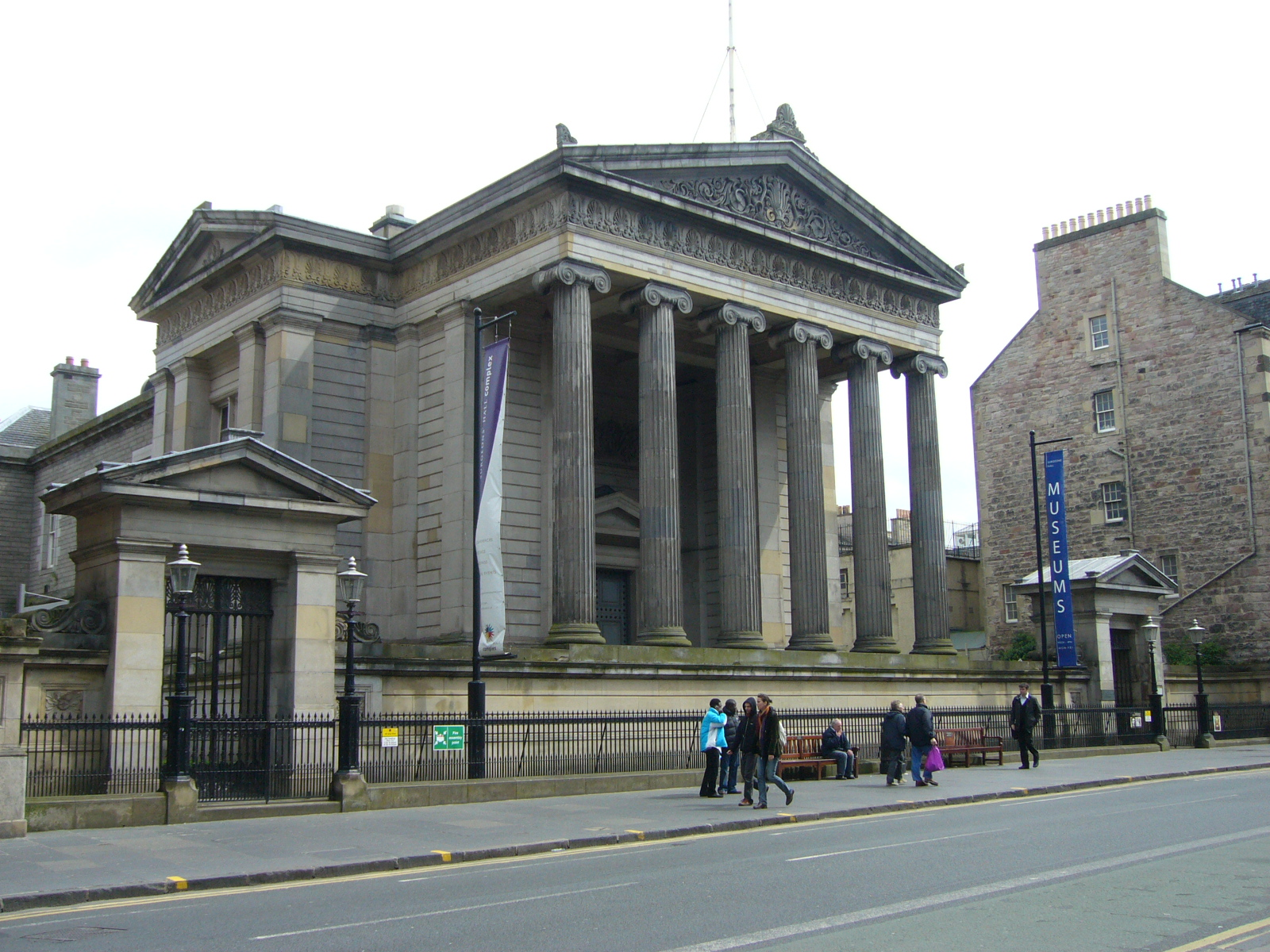 Built 1829-1832 to a design by William Playfair, this temple to medicine is one of the magnificent neo-classical buildings which earned Edinburgh the epithet, "Athens of the North".